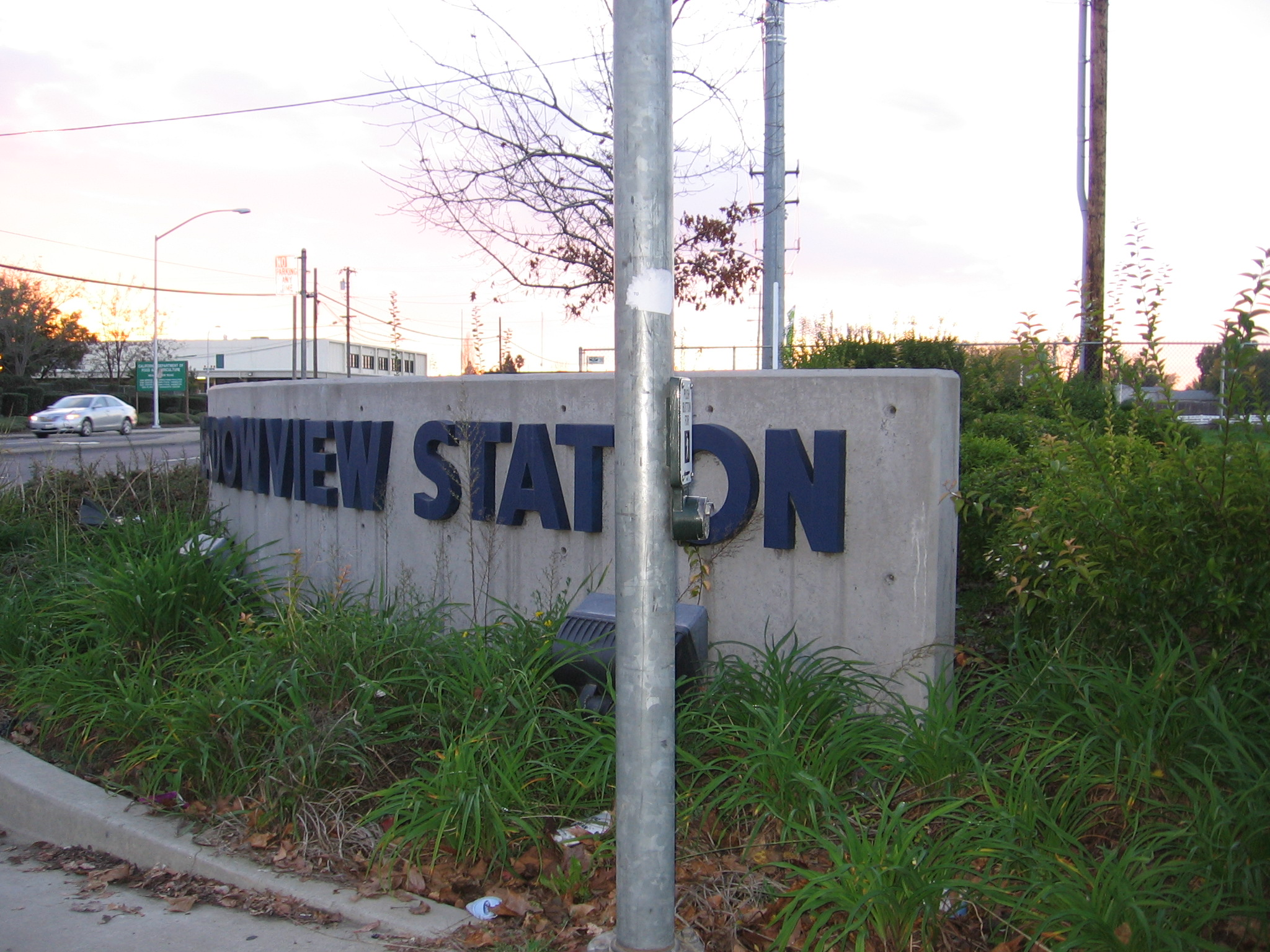 The sign at the entrance to the parking lot for Meadowview (Sacramento RT) light rail station in Sacramento, California, USA. The sign faces Meadowview Road. This is a view looking west.